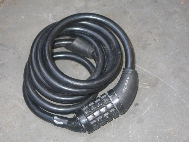 I took the photo. It's a combination bike lock.